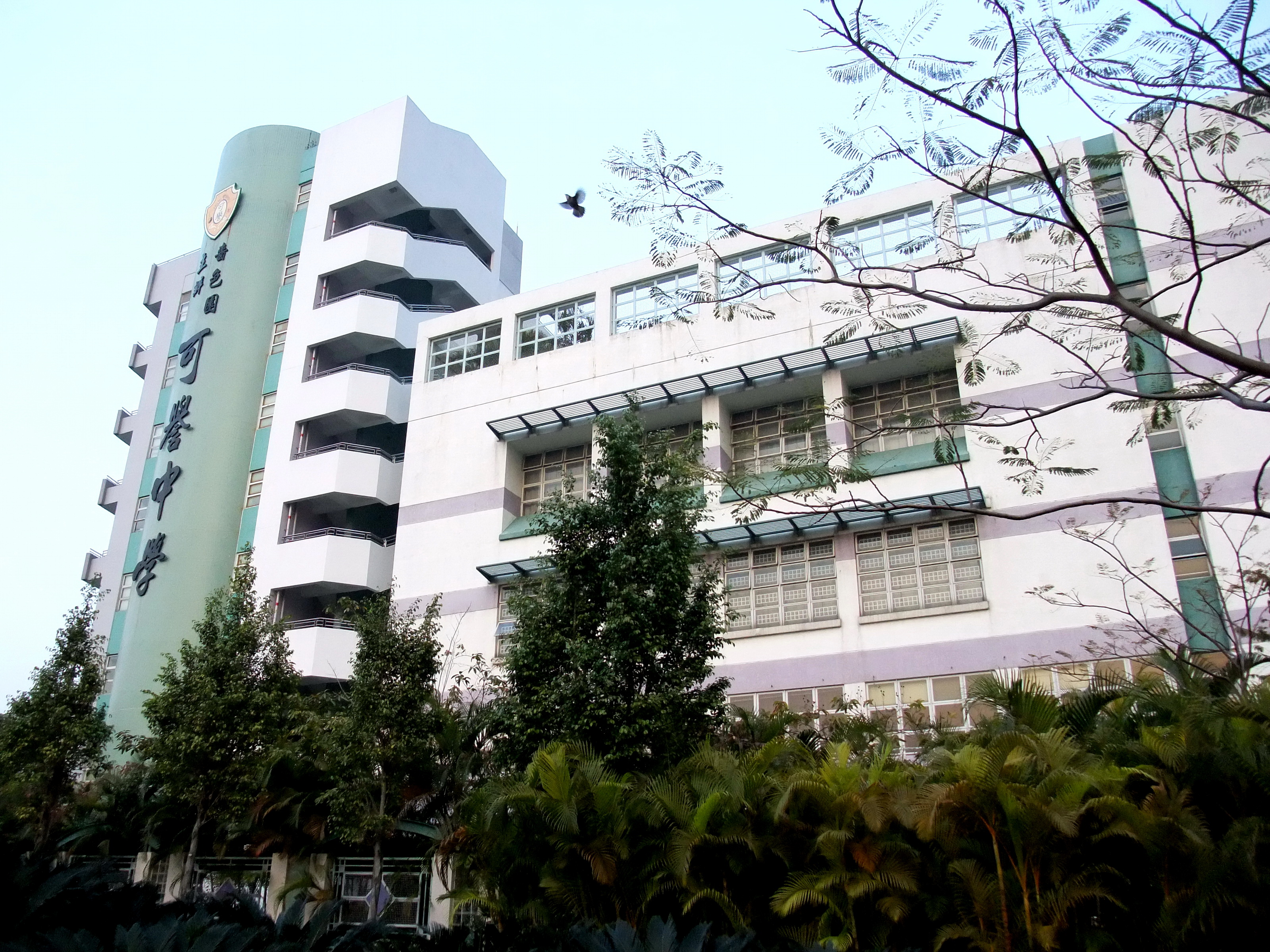 Ho Yu College and Primary School (Sponsored by Sik Sik Yuen) in Tung Chung, Hong Kong.